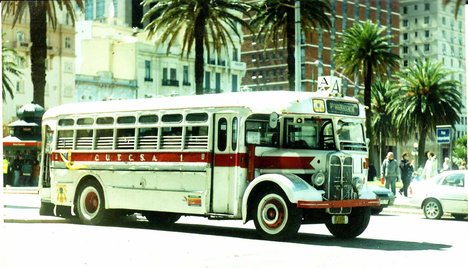 ACLO (AEC) Bus Nº 1 of CUTCSA, an uruguayan company of buses. Now belongs to "ERHITRAN", an NGO dedicated to restore old buses. The bus was donated by Ematur and restore in 3 years and 4 months. I took the picture under the "Door of the Old City", in the "Plaza Independencia" ("Independent Square") in Montevideo, Uruguay, in a Patrimony´s Day, a very special event in Uruguay. The original picture was taken with a Zenith 122 (35mm)